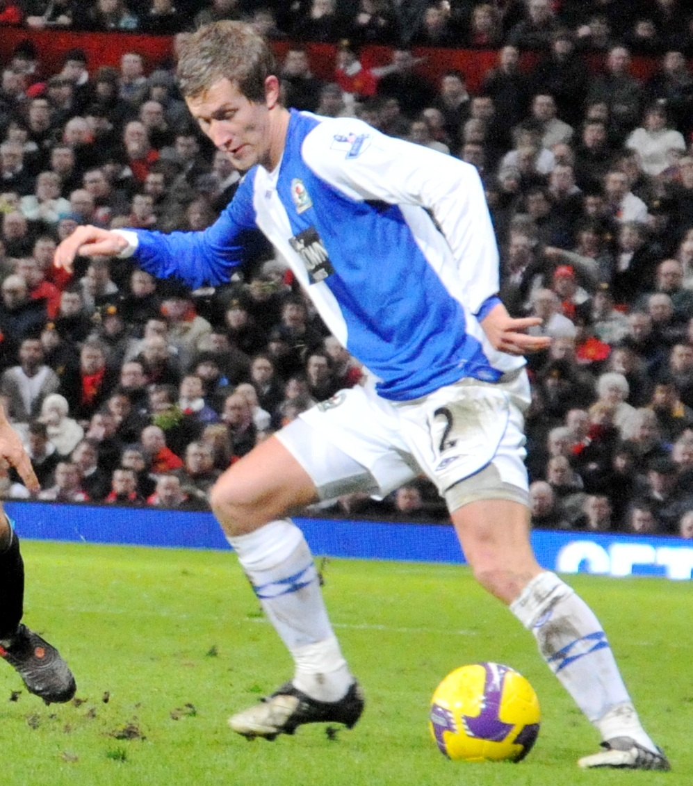 Rafael da Silva of Manchester United, Morten Gamst Pederson of Blackburn Rovers